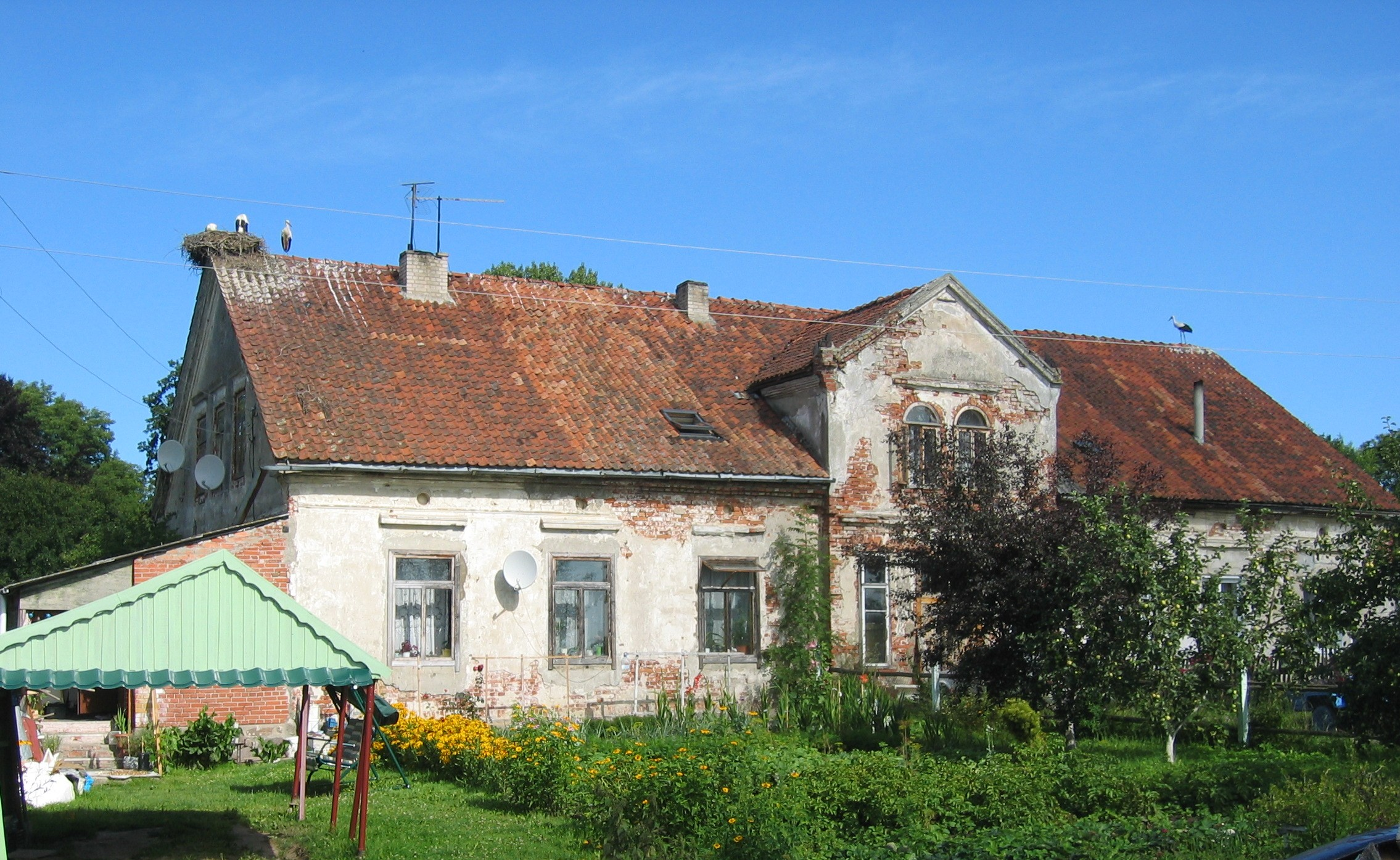 Sacherau mansion, now Morozovka, Kaliningrad Oblast, RussiaLietuvių: Sakeravos dvaras, šiandien Morozovka, Kaliningrado sritis, Rusija